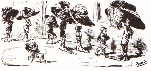 Warsaw Ladies by Arkadiusz Mucharski (1882)